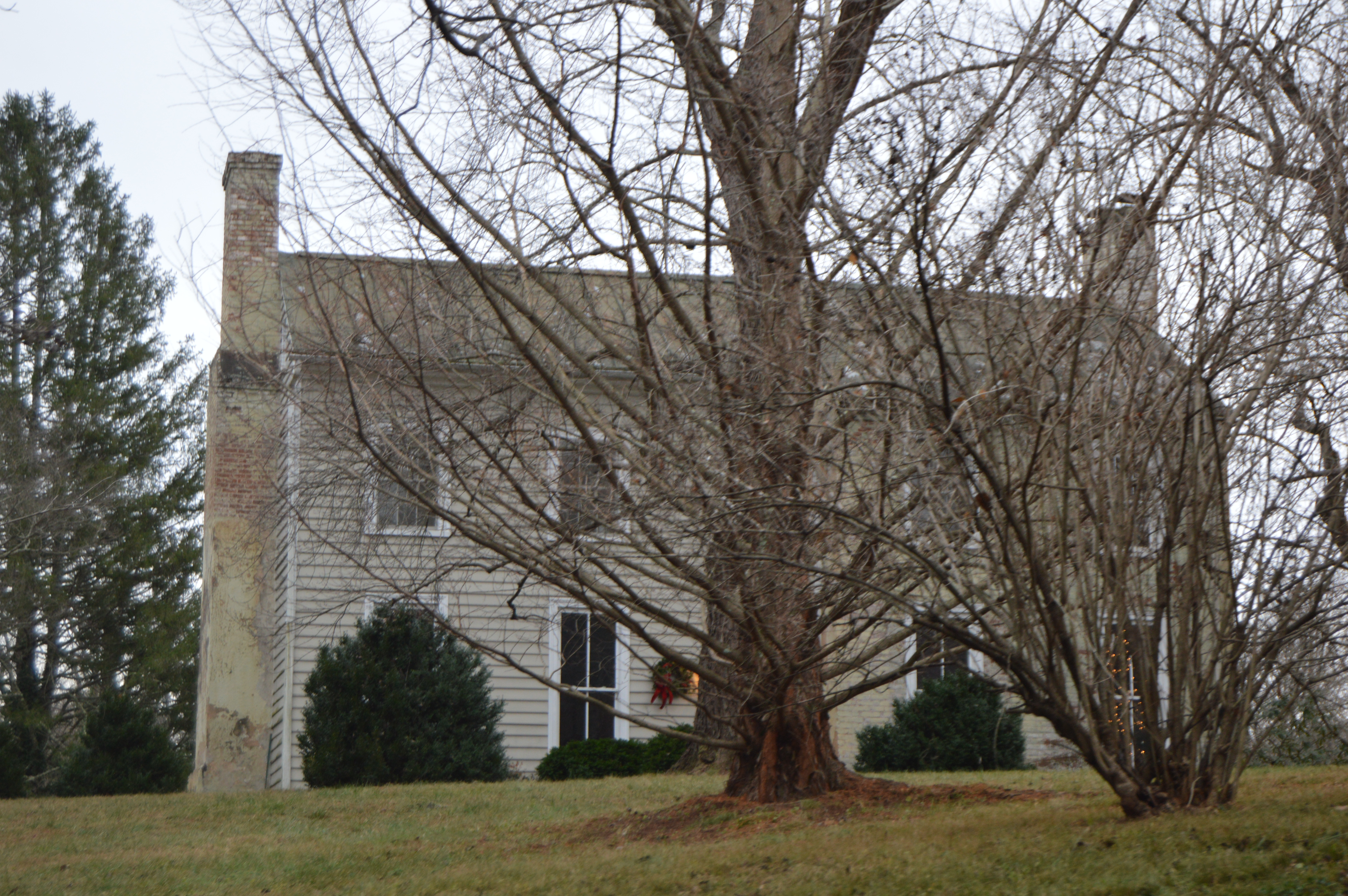 Roadside view of Home Tract, located on Ivy Depot Road at Ivy in Albemarle County, Virginia, United States. Built in 1840, it is listed on the National Register of Historic Places.